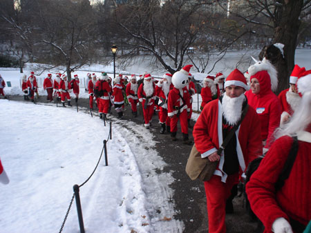 A small sample of the attendance at Santacon 2005 (New York). This shot was taken in Central Park. (Dec 10th 2005)